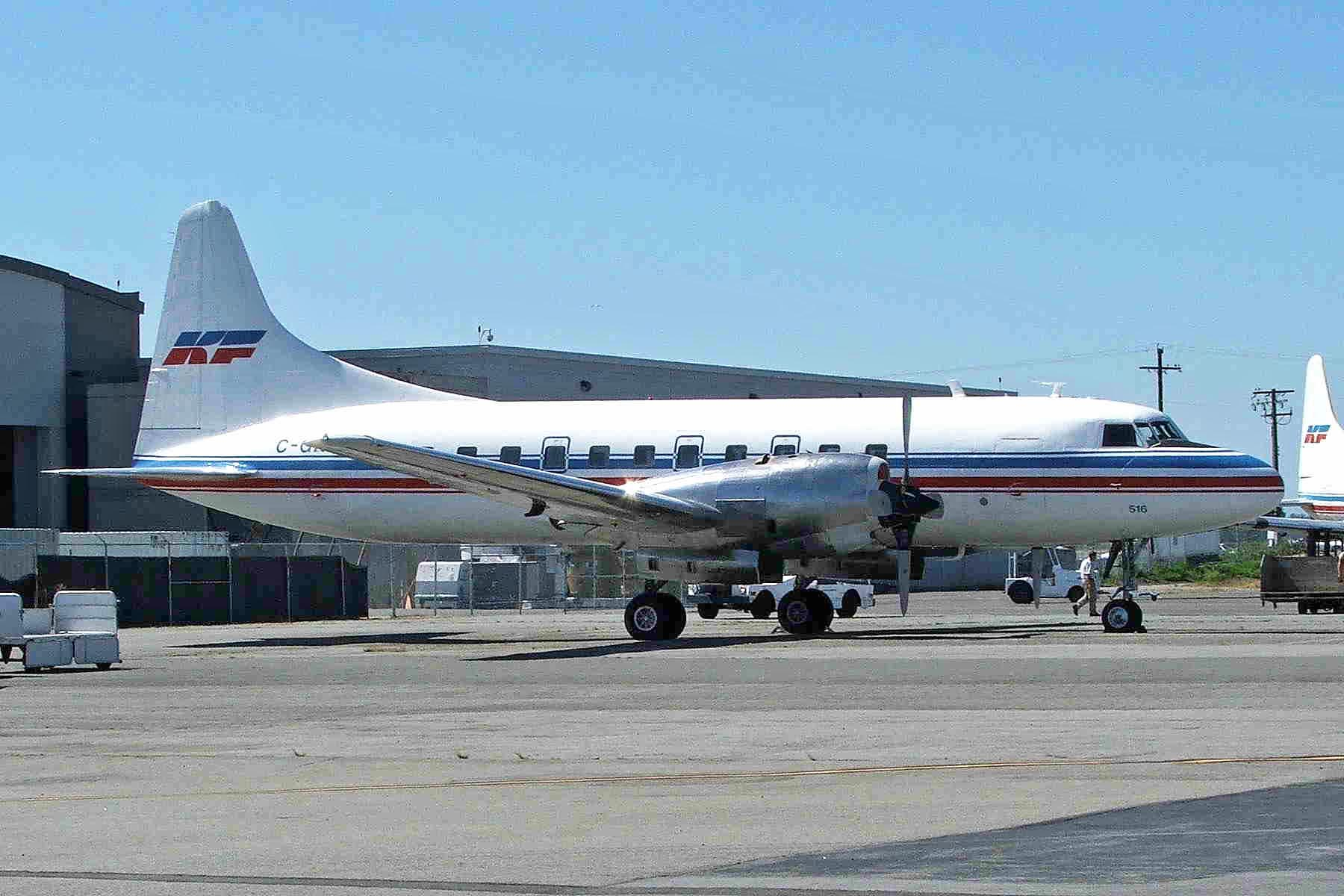 A picture of an airplane (name of it is on the file name).